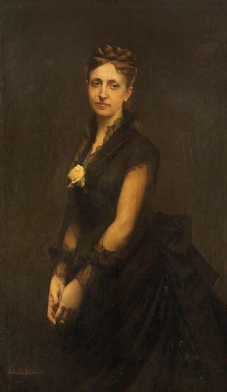 Gravin Oswald de Kerchove de Denterghem